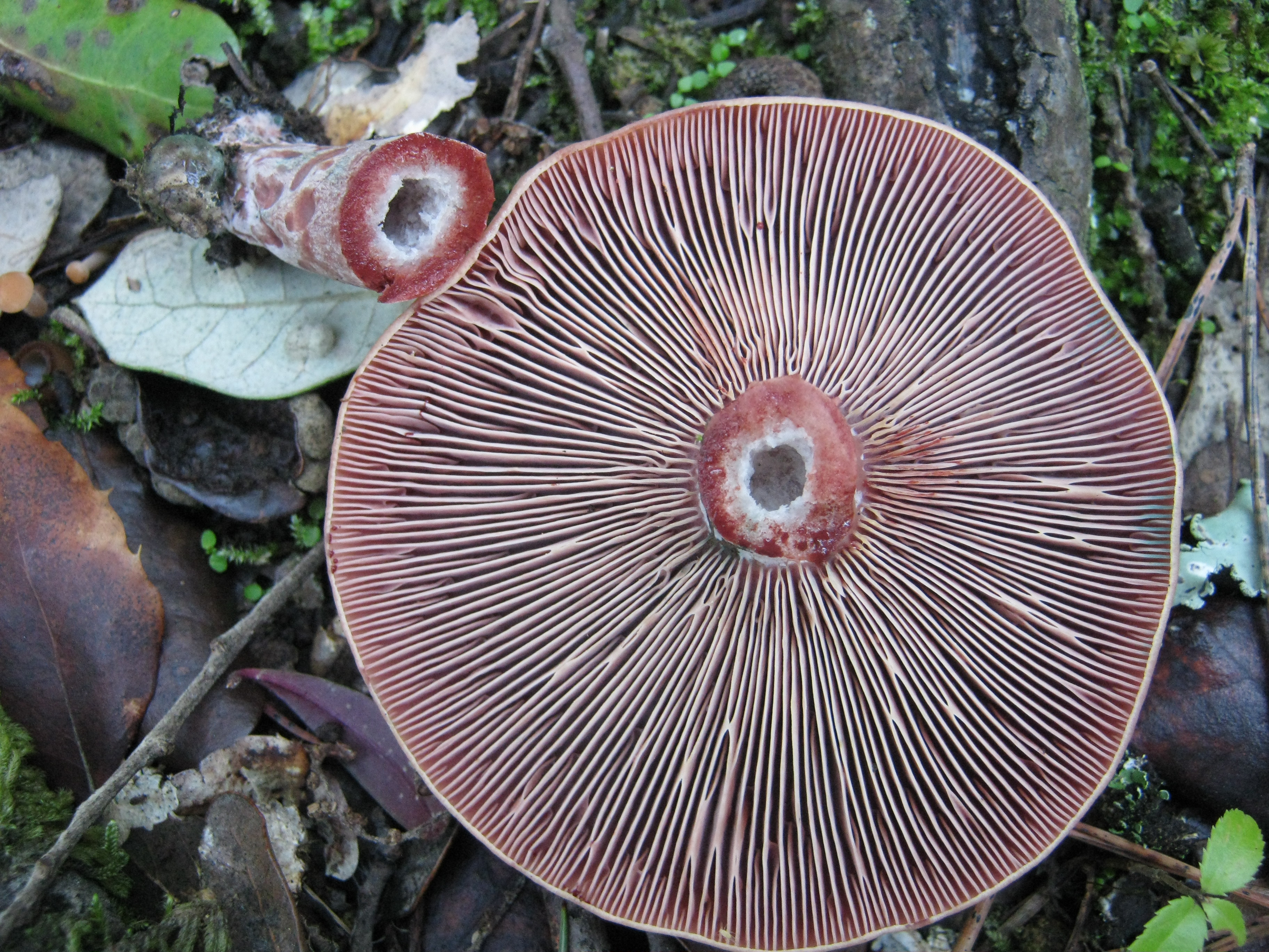 The gills of the milkcap mushroom Lactarius sanguifluus. Specimen found in Parque de Monsanto, Lisboa, Portugal.